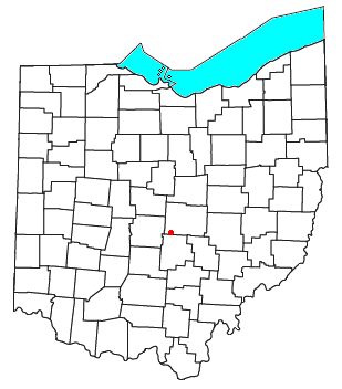 Locator map of the unincorporated community of Etna in Licking County, Ohio, United States.